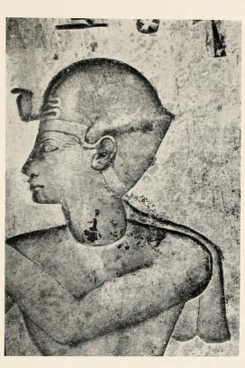 Closeup of a relief depicting pharaoh Siamun. From Memphis, 21st dynasty, Third Intermediate Period.